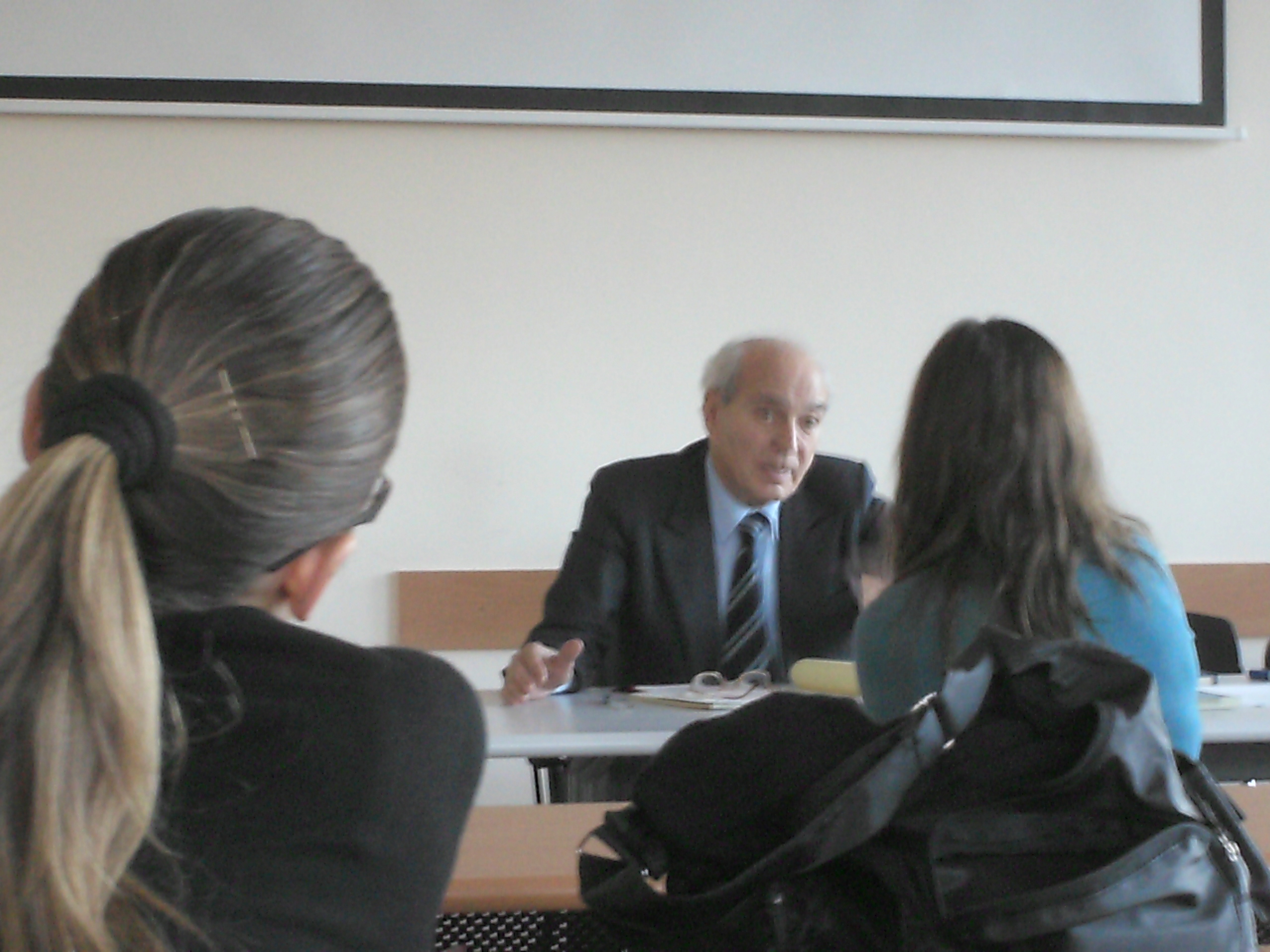 Riccardo Campa at Università per Stranieri di Siena, 2008